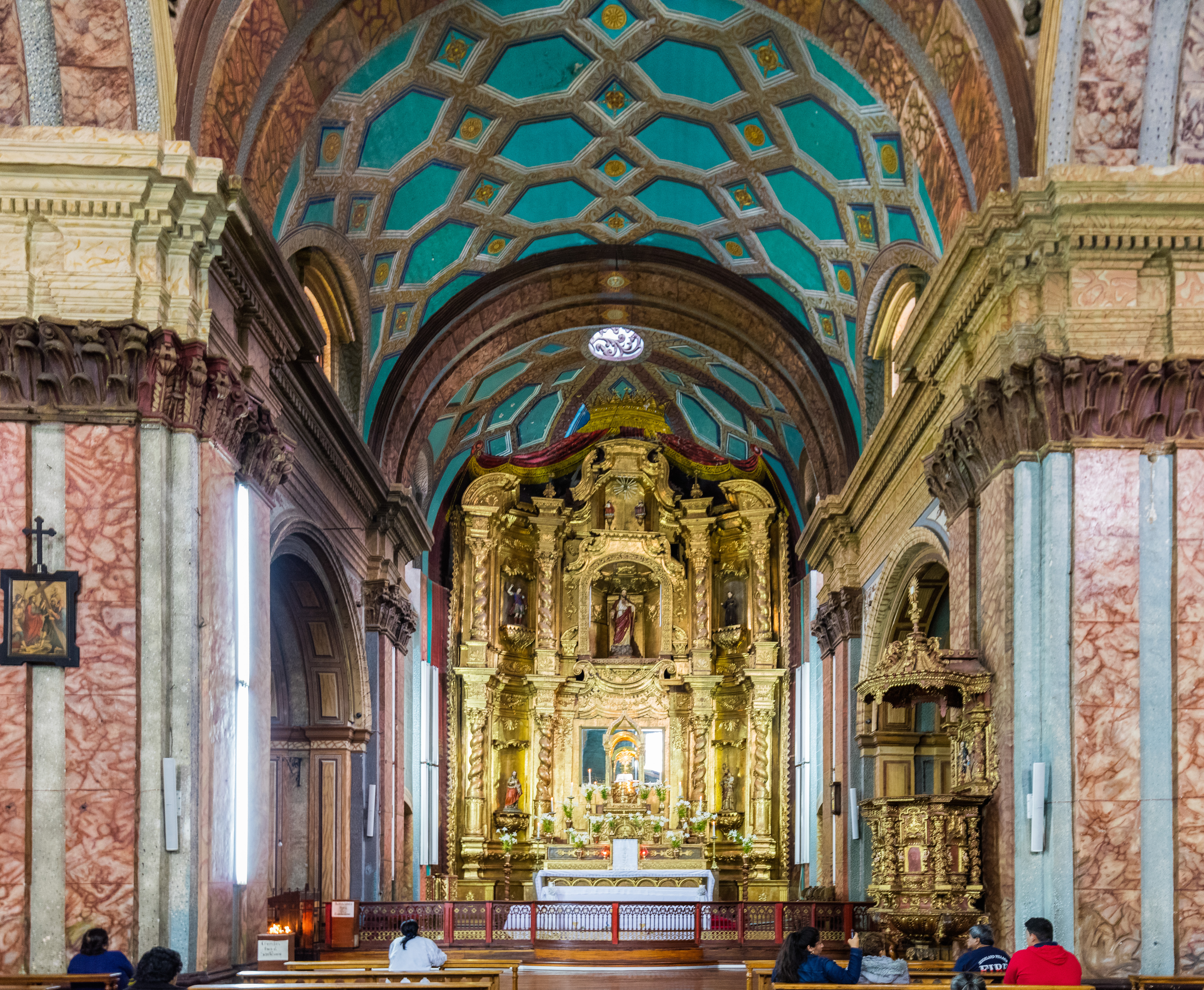 Church of the Tabernacle, Quito, Ecuador